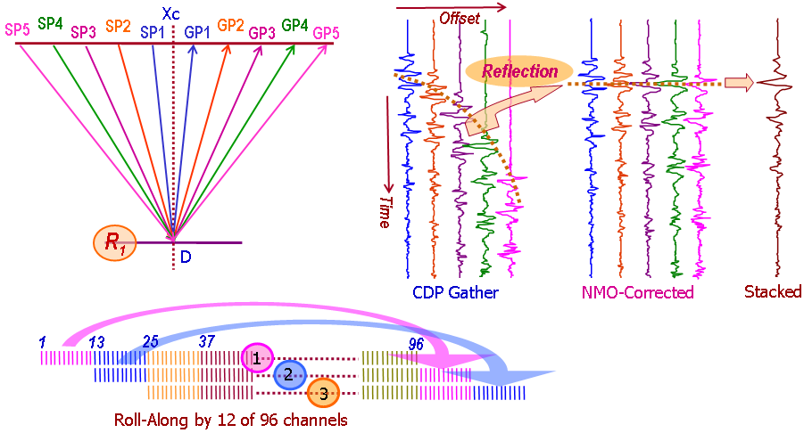 Seismic CDP Principal